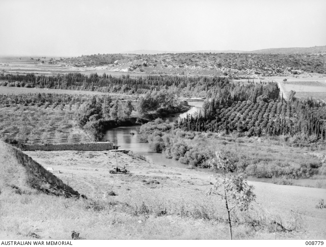 1941-06. SYRIA. VIEW OF THE RIVER LITANI, PRINCIPAL RIVER OF SYRIA. (NEGATIVE BY F. HURLEY).